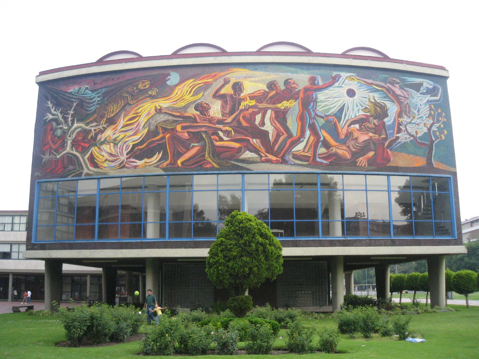 A mural at the National Autonomous University of Mexico.